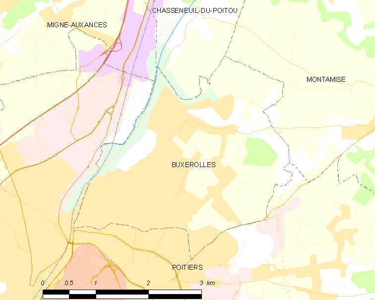 Map of French municipality Buxerolles